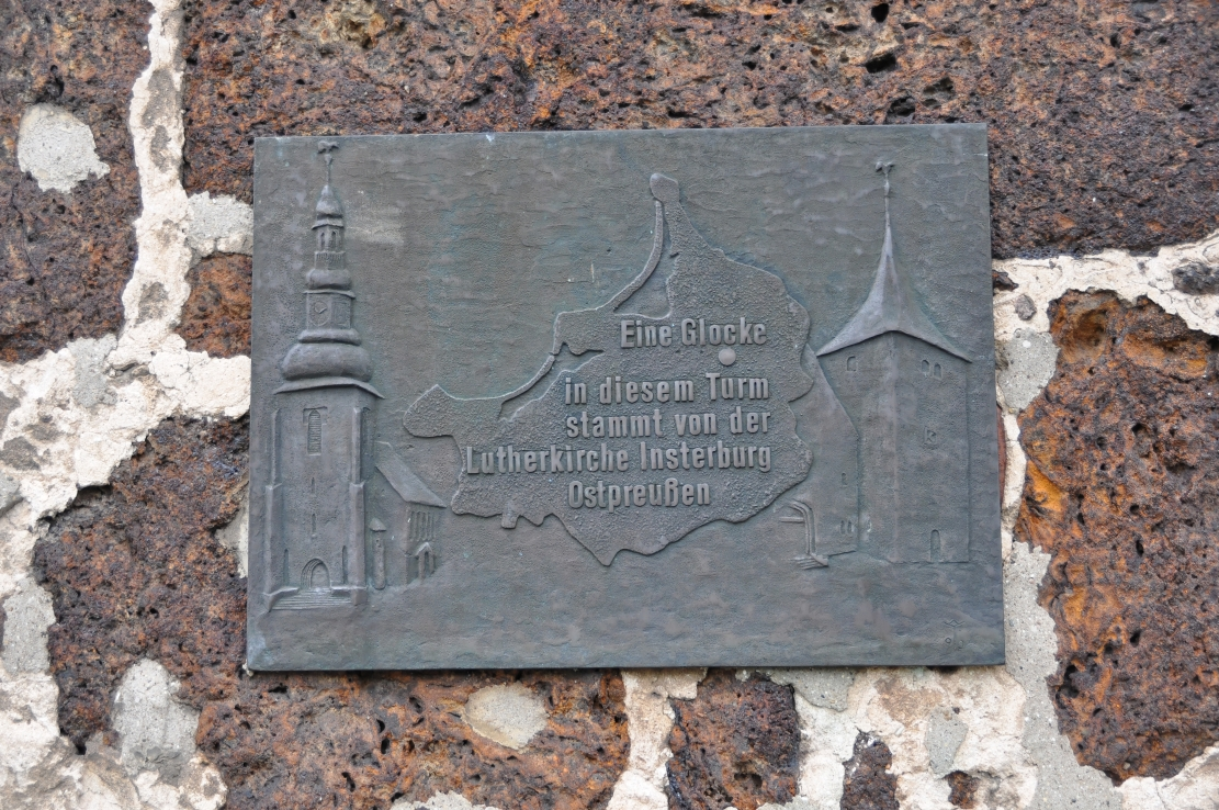 St. Nicolai-Kirche (Hannover-Bothfeld)